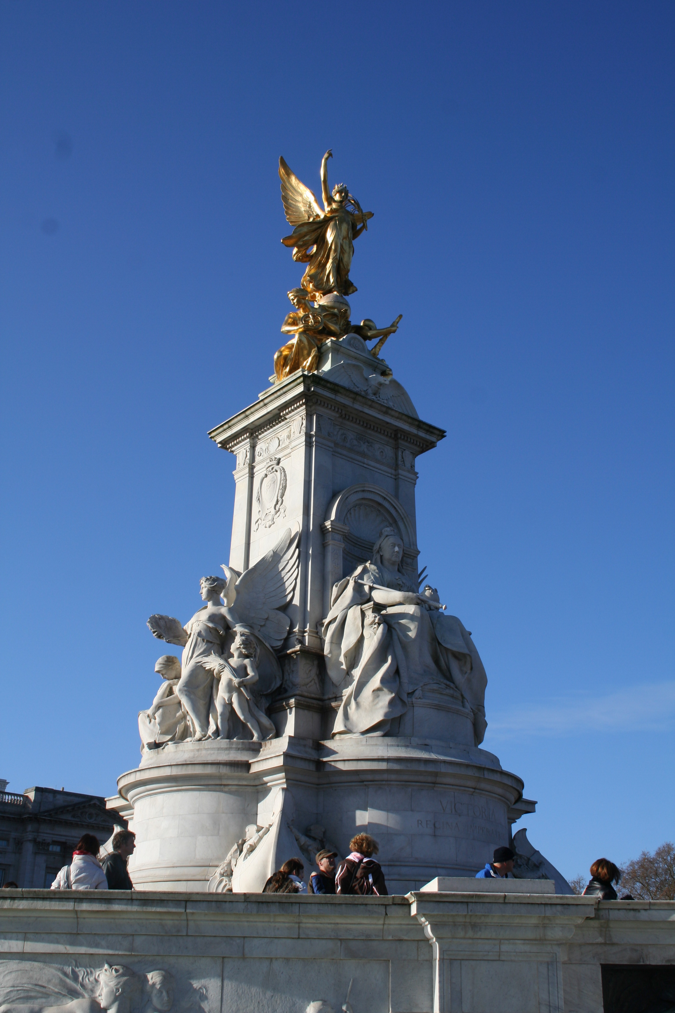 Queen Victoria Memorial The centrepiece of the Queen Victoria Memorial fountain by Buckingham Palace.